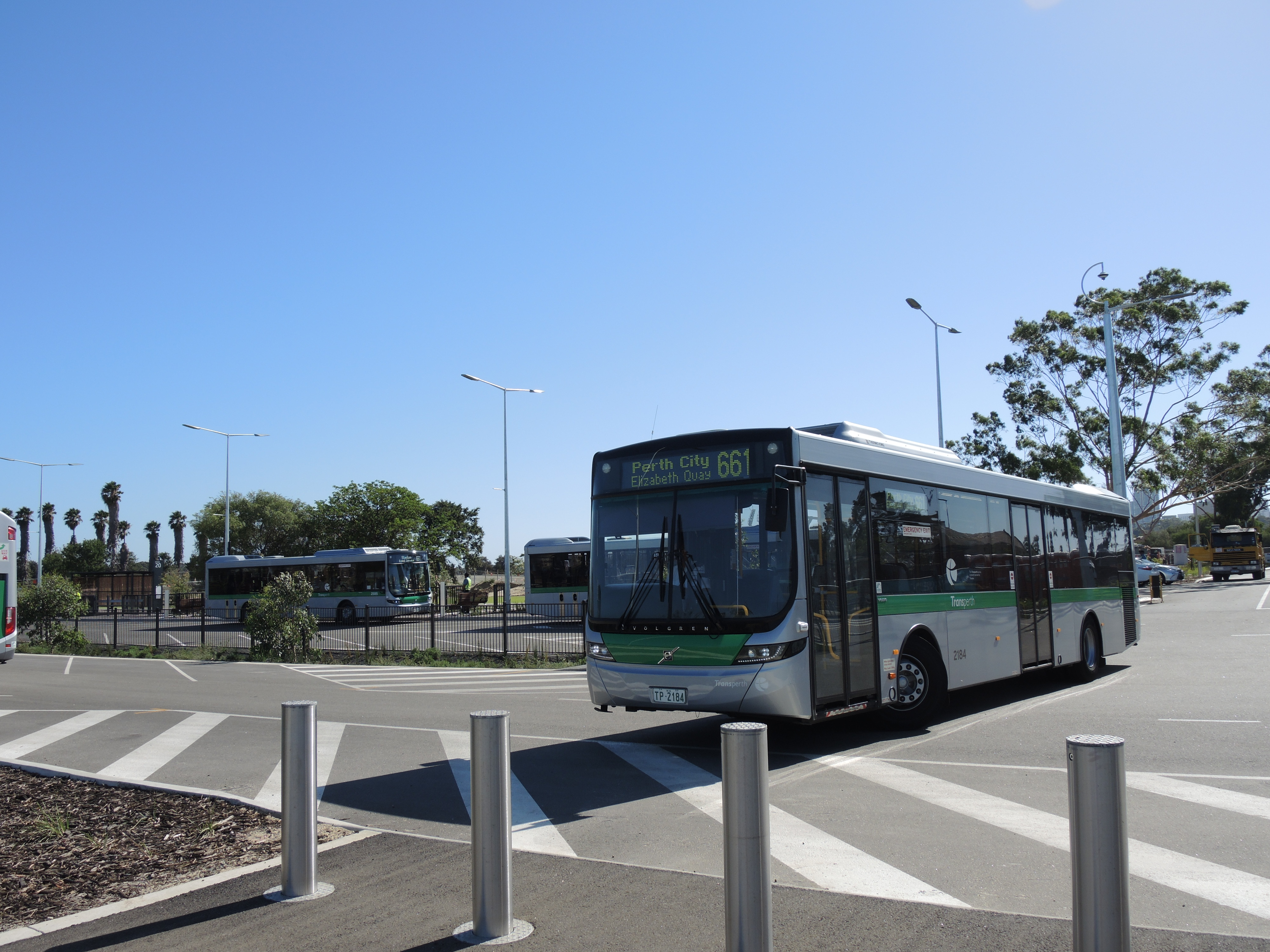 Perth Stadium open day. Perth Stadium Bus Station.